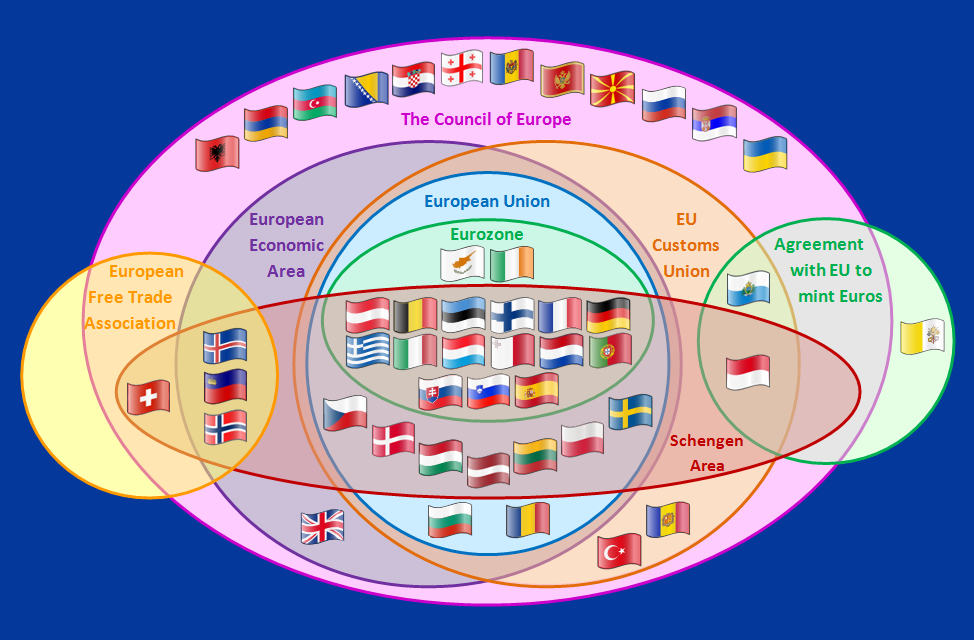 Euler diagram of supranational European Bodies